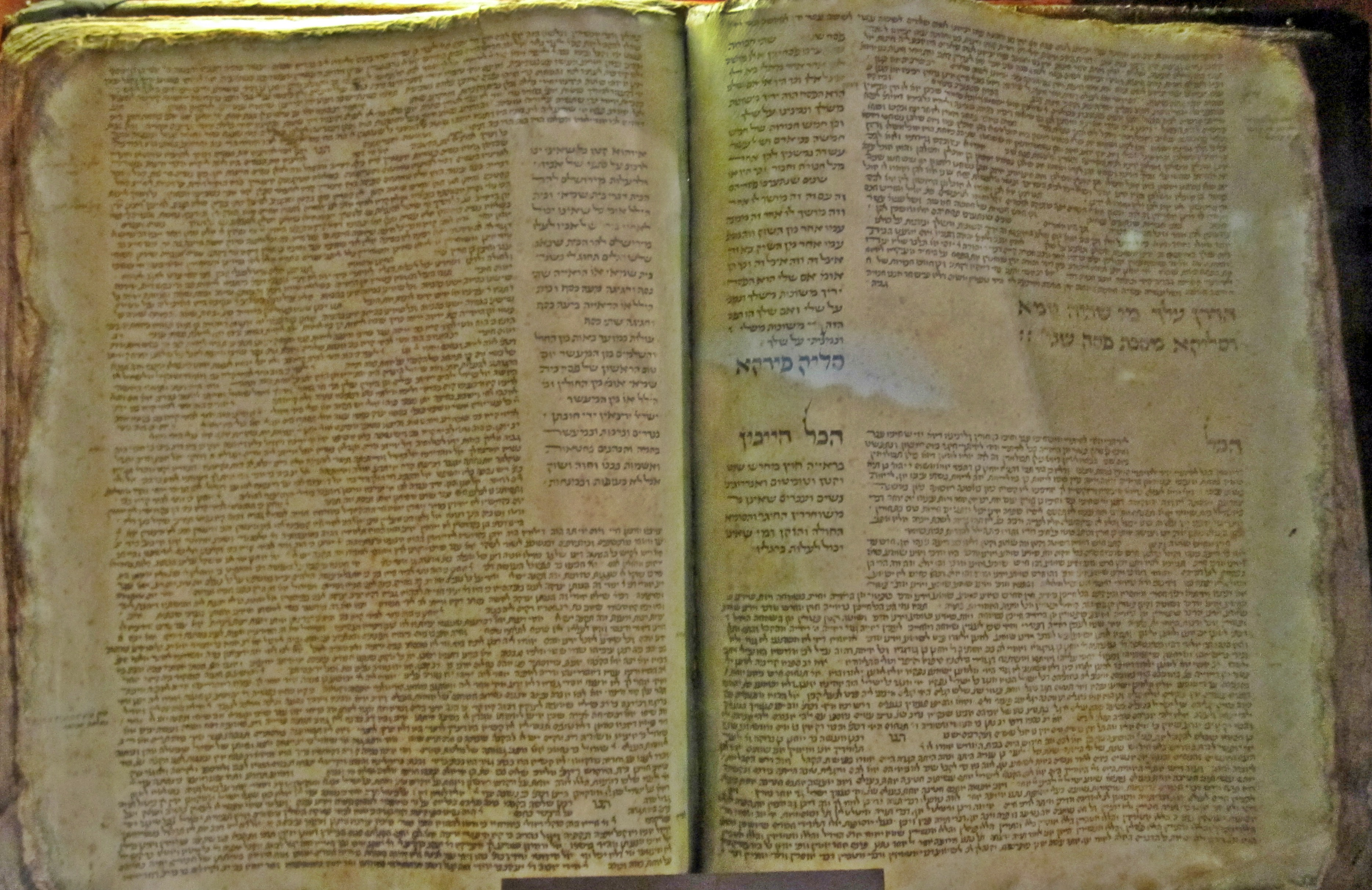 Photo of Exhibit at the Diaspora Museum, Tel Aviv - Beit Hatefutsot Babylonian Talmud, manuscript, copied by Solomon ben Samson, France, 1342